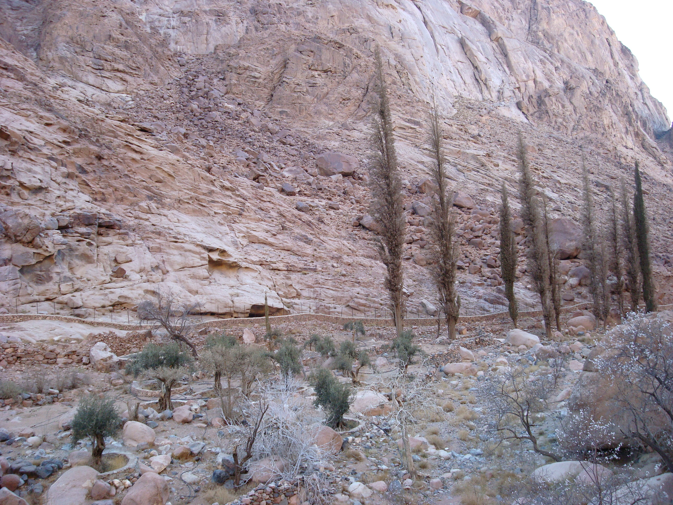 أحد المناظر الطبيعية من داخل وادي الاربعين بسانت كاترين بجنوب سيناء